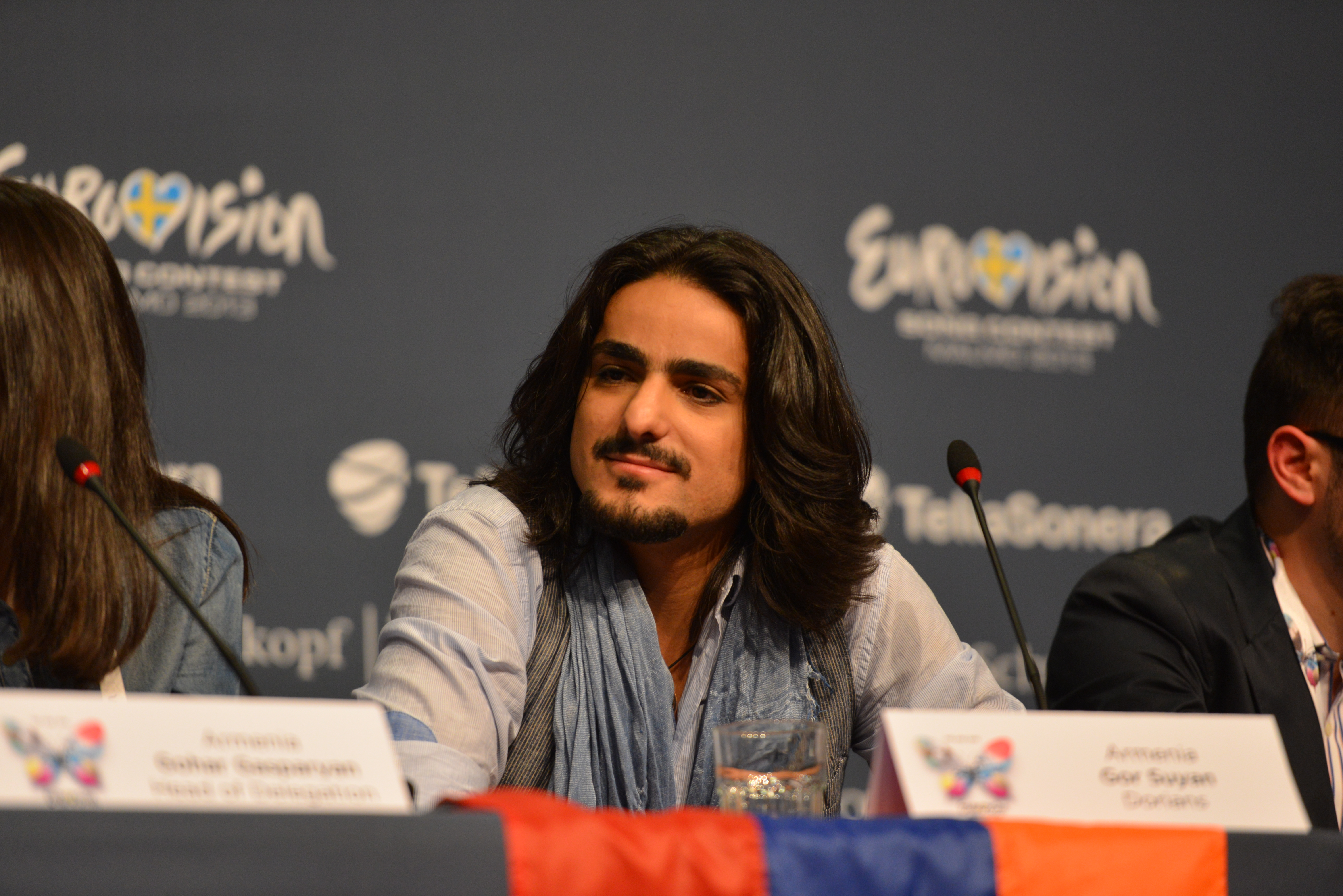 Gor Sujyan from Dorians at a press conference during the Eurovision Song Contest 2013 in Malmö. (Help translate this text)